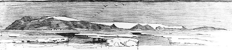 Drawing of Bennett Island, discovered north of Siberia by the Jeannette Expedition. Labels: Photo # NH 92134 "Bennett Island", discovered by the Jeannette party north of Siberia, July 1881. Bennett Island, Discovered by Captain De Long and Party